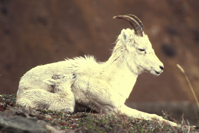 Arctic National Wildlife Refuge, Alaska. Photo: USFWS